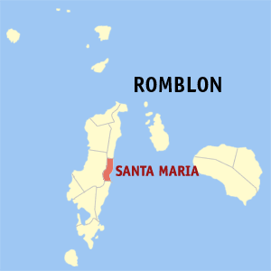 Map of Romblon showing the location of Santa Maria